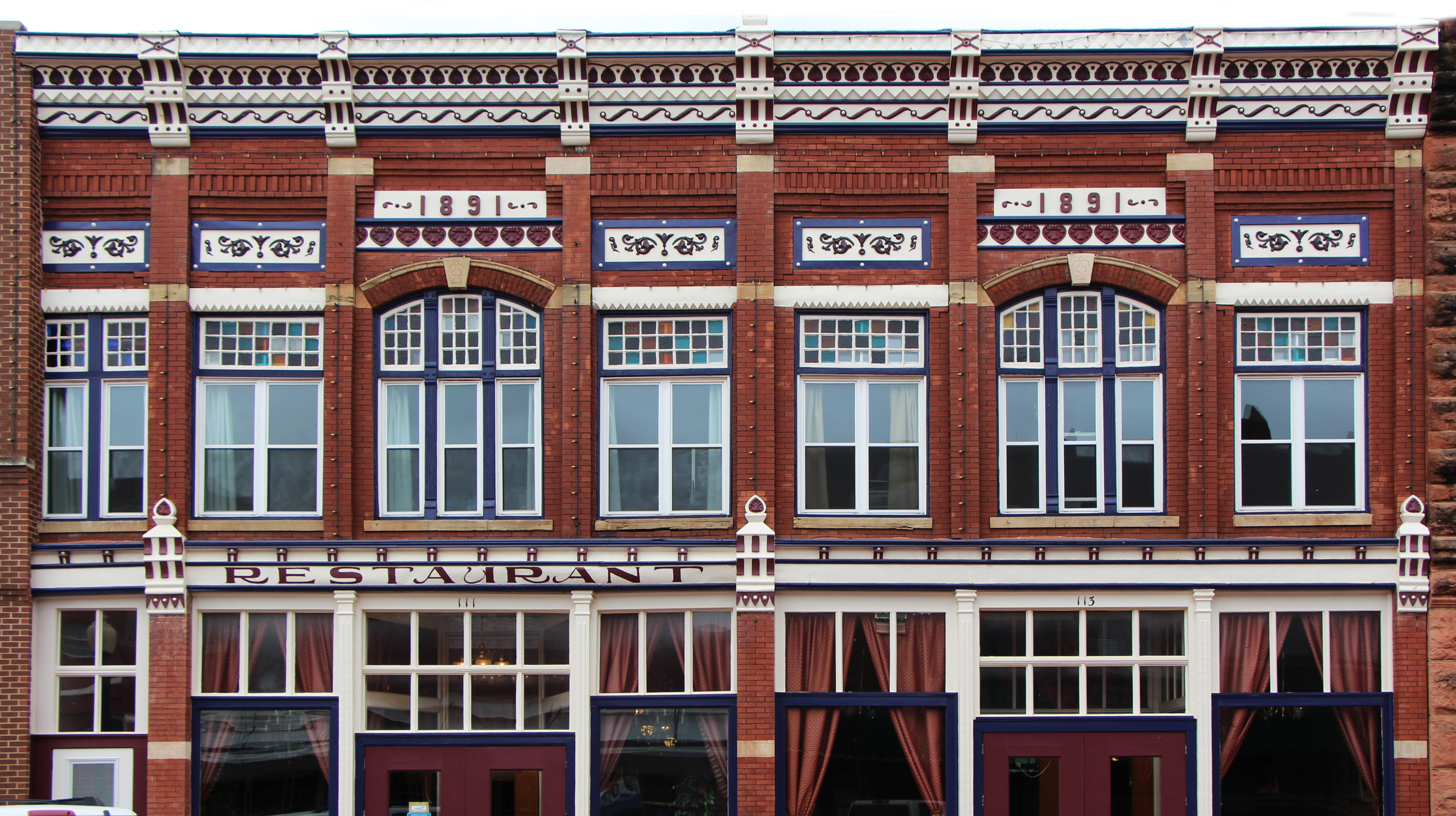 Tontz and Hirschi Block, Guthrie, Oklahoma